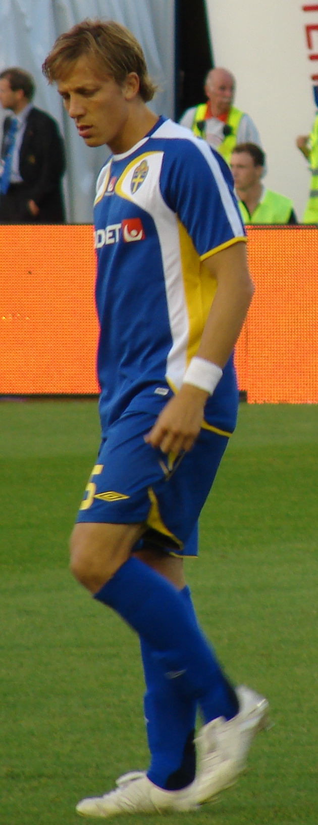 Taken at Ullevi for the match between Sweden and USA.